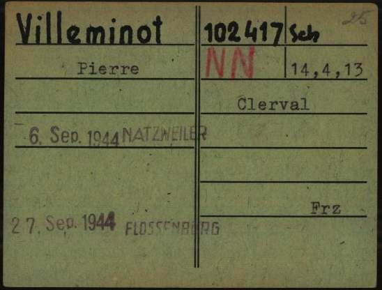 Registration card of Pierre Villeminot as a prisoner at Dachau Nazi Concentration Camp. Red "NN" identifies Villeminot as a prisoner under "Nacht und Nebel" directive.